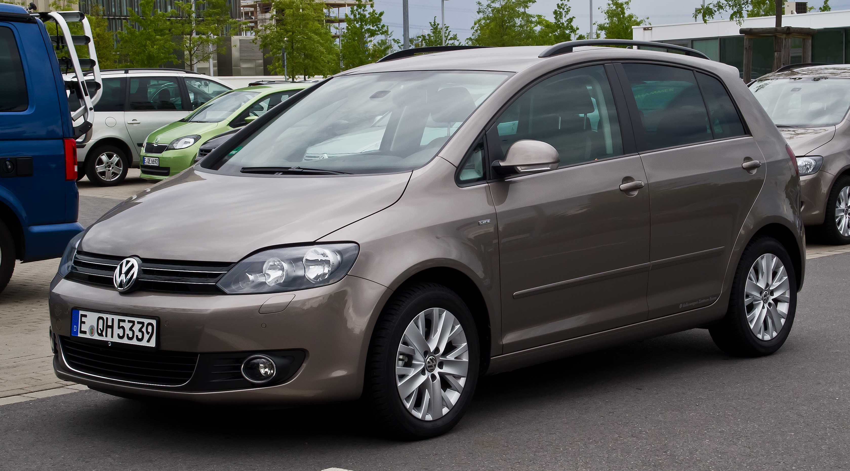 VW Golf Plus 1.2 TSI Life (Facelift)